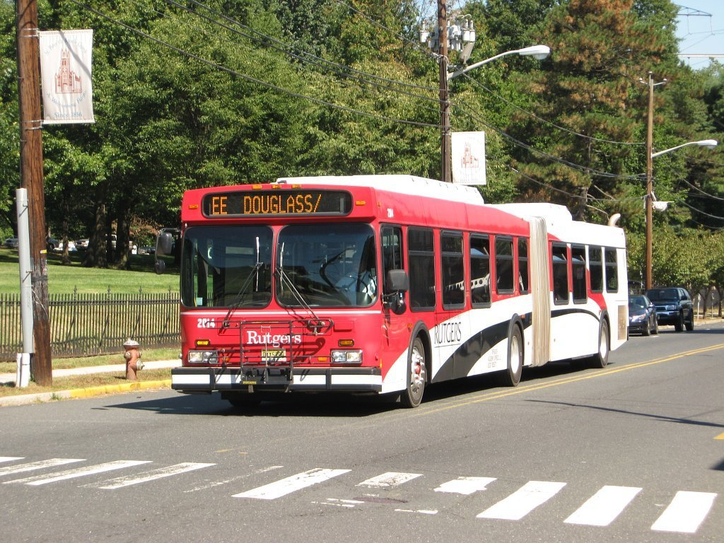 Rutgers University New Flyer D60LF #2014 (owned and operated by Academy Bus Lines) operates on the EE line to Douglass/Cook campuses, at Somerset Street and College Avenue, about to turn left onto College Avenue, in New Brunswick, NJ.